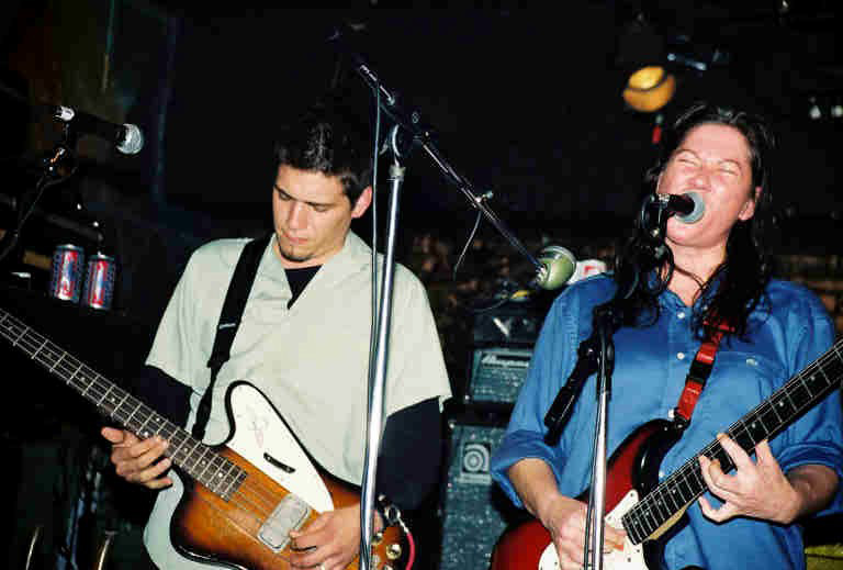 The Breeders, Kim Deal, Berbati's Pan Portland, OR